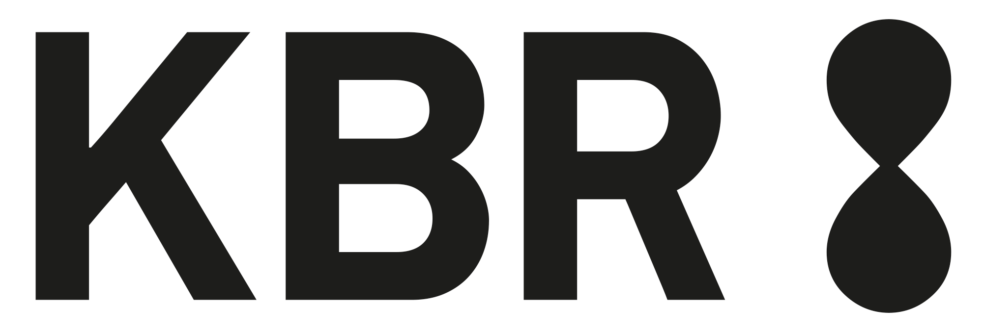 The current logo of the Royal Library of Belgium, copied from a blog post about the new logo.